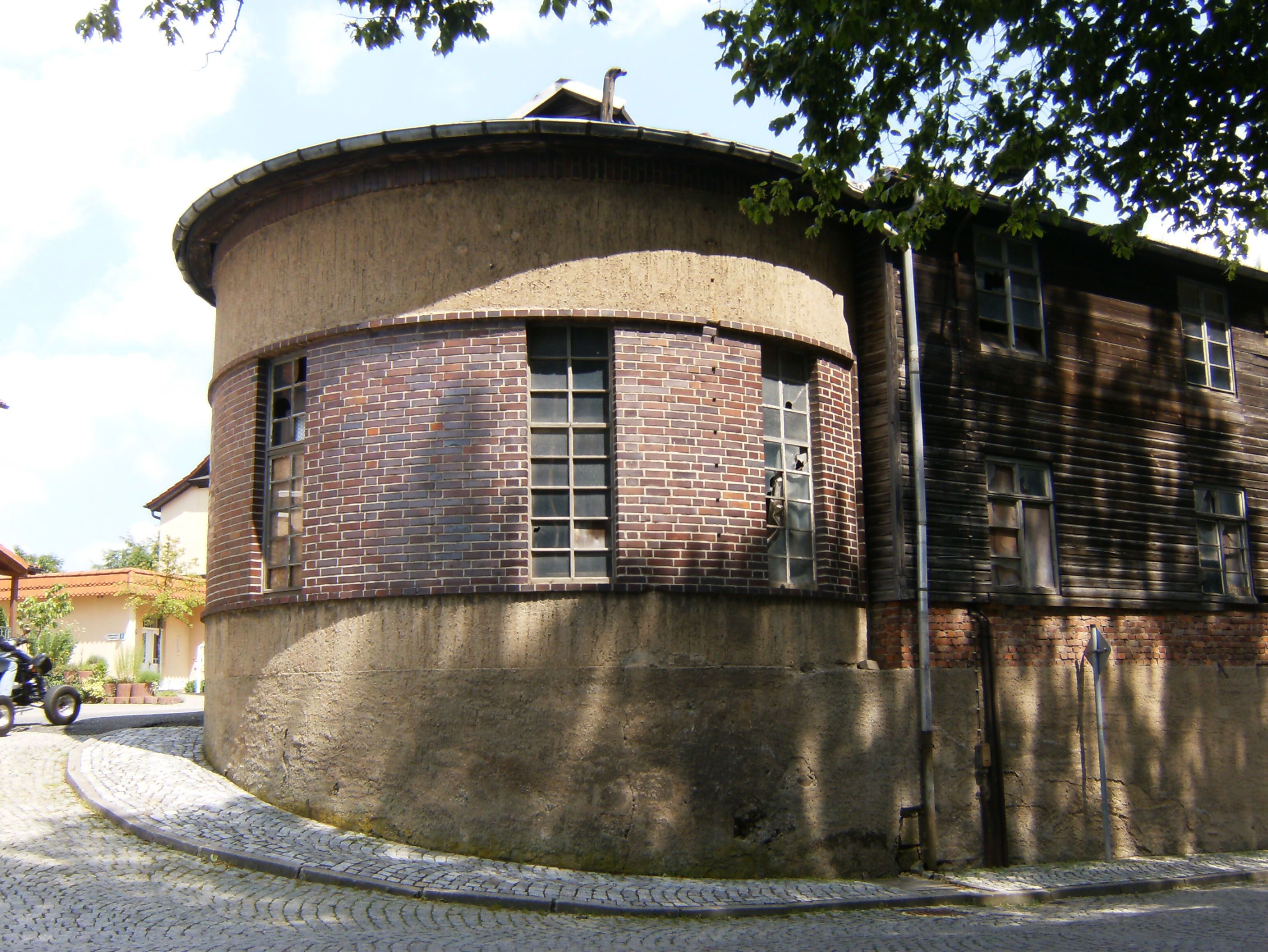 Muenchenbernsdorf, circular shaped former factory building from the twenties. 2009.